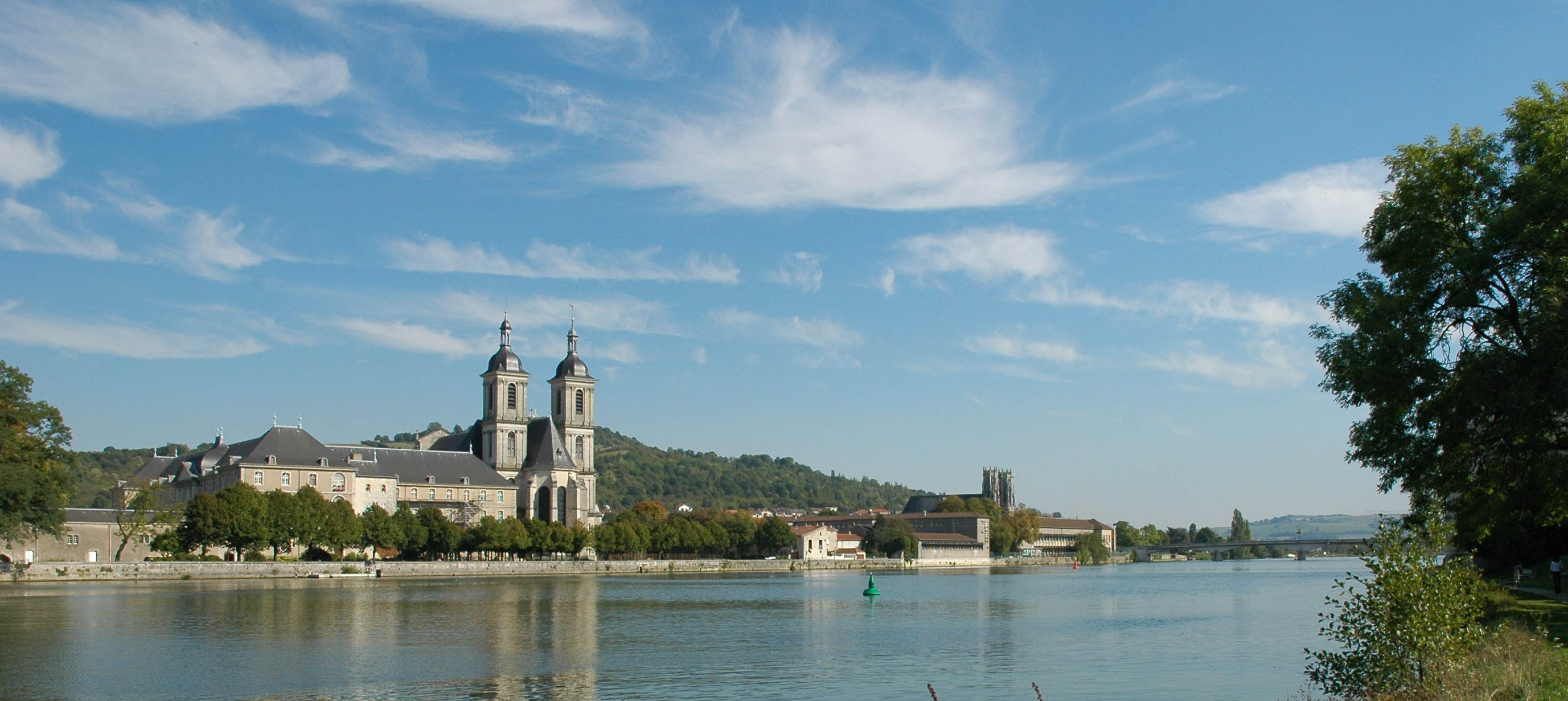 La Moselle à Pont-à-Mousson avec l'abbaye des Prémontrés. This is a retouched picture, which means that it has been digitally altered from its original version.